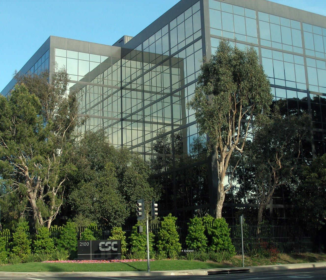 The former headquarters of Computer Sciences Corporation in El Segundo. CSC officially moved its headquarters to Falls Church on August 1, 2008.